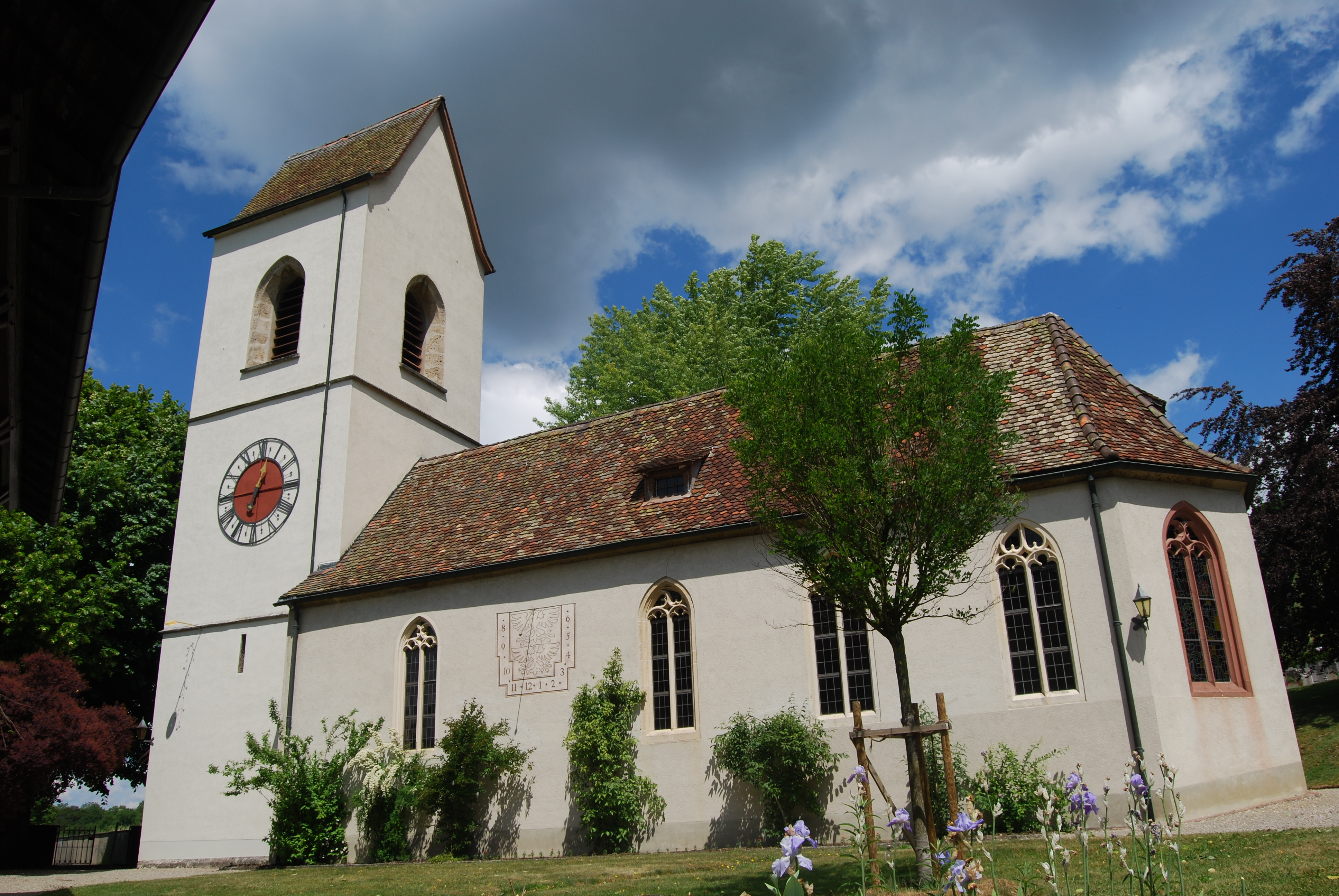 Church of Läufelfingen, canton of Basel-Country, Switzerland